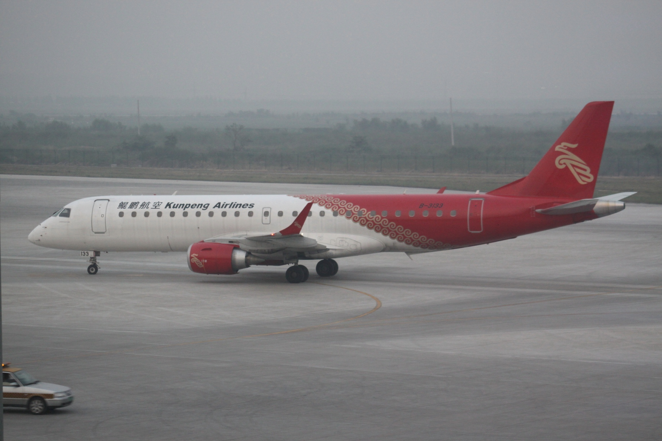 At Tianjin